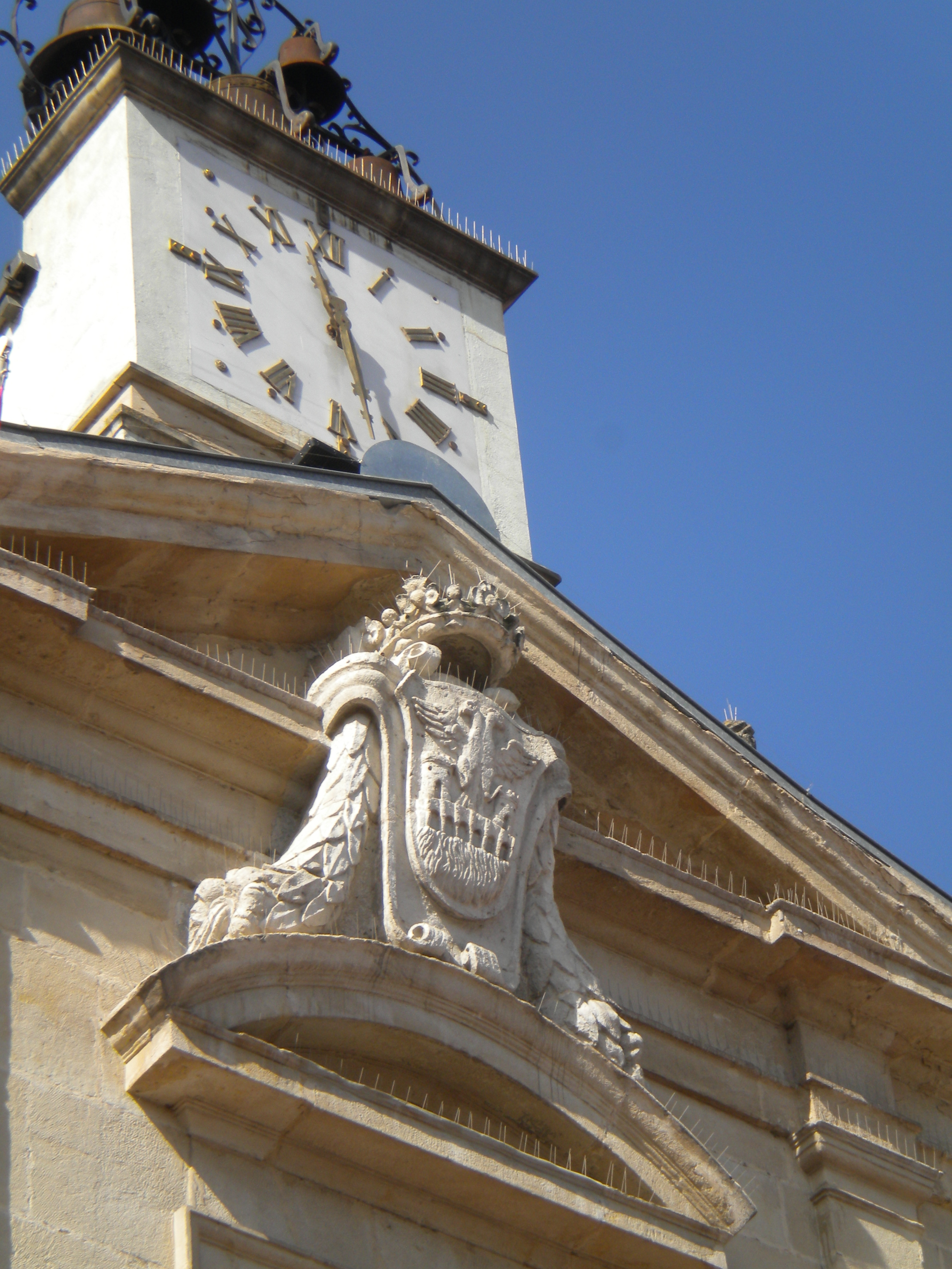 Coat of arms in the Town Hall of Miranda de Ebro (Castile and León, Spain)